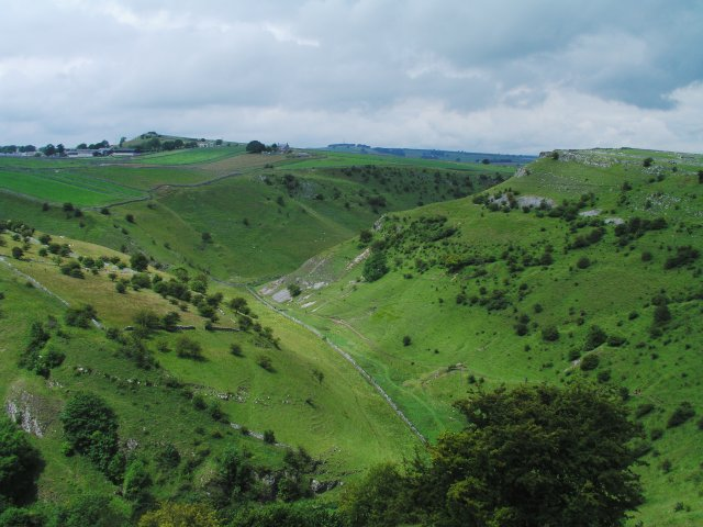 Cressbrook Dale. A view of Cressbrook Dale, not far from the more famous Monsal Dale.